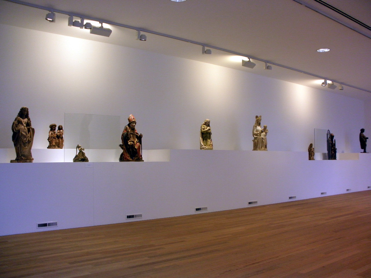 Bonnefanten Museum, Maastricht, the Netherlands. Overview of semi-permanent exhibition of medieval wood sculptures from the Mosan region, 2011.